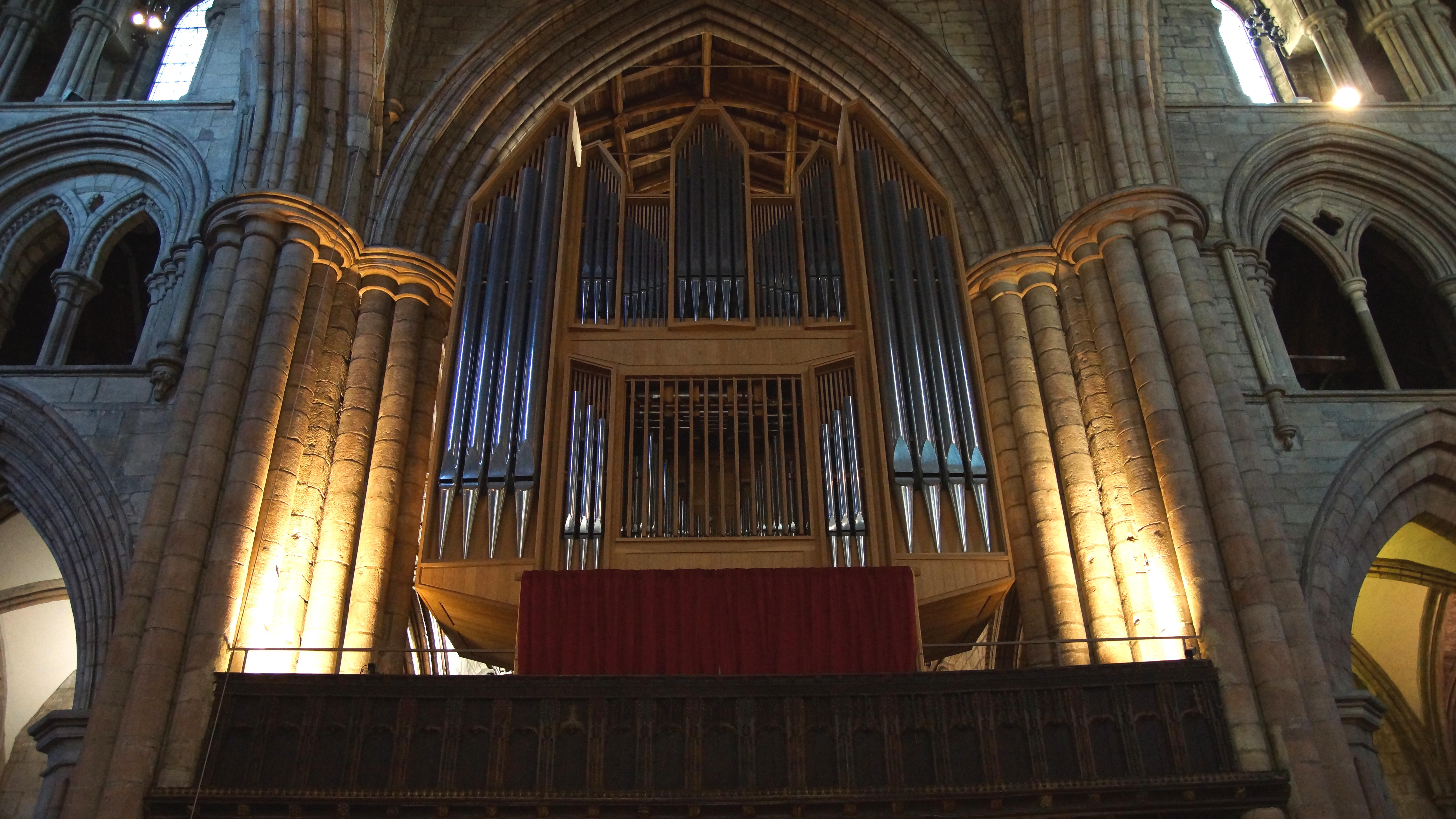 Organ Pipes